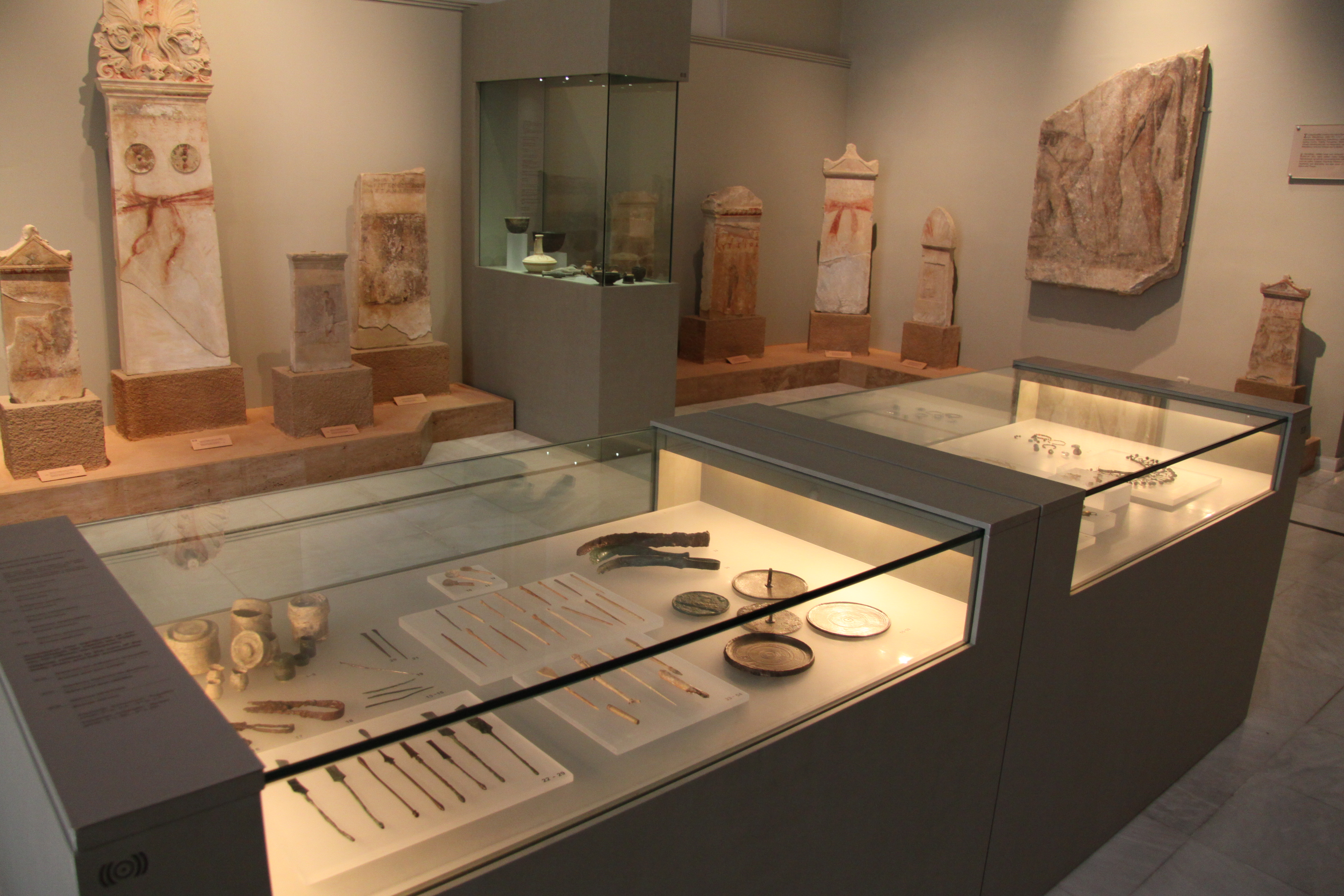 Interior